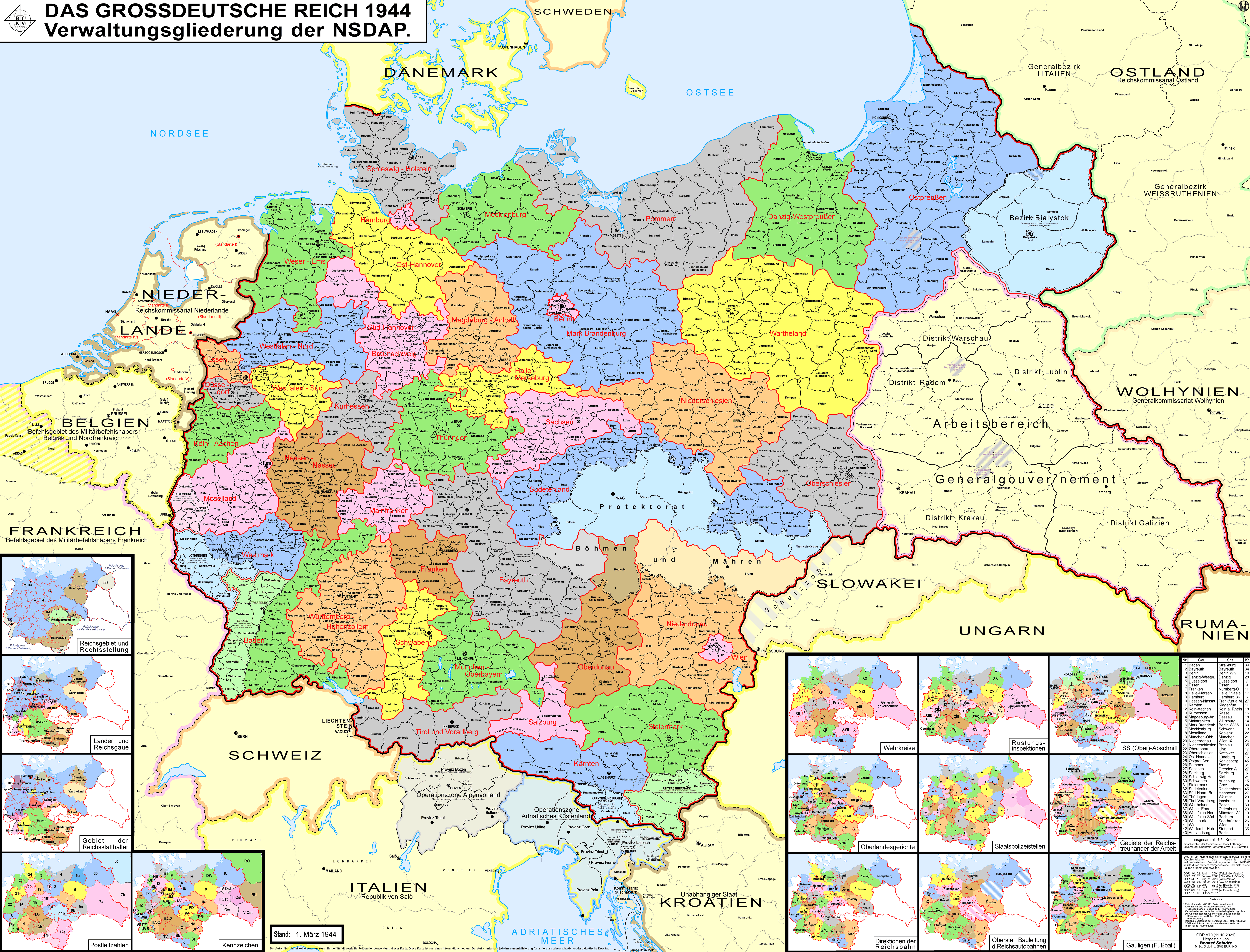 Map of the administrative division of the Greater German Reich (»Großdeutsches Reich«/»Großdeutschland«/"Greater German Empire"/"Greater Germany") by the NSDAP (Nazi Party) 1944, showing Kreise, Gaue and Reichsgaue. In addition, the states, the territories of the Reichsstatthalter and the legal status of Reich territories. Additionally postal codes, license plates, military districts, higher regional courts, State Police offices, railway directorates, Supreme construction management of the highways and work coordination areas 1944.